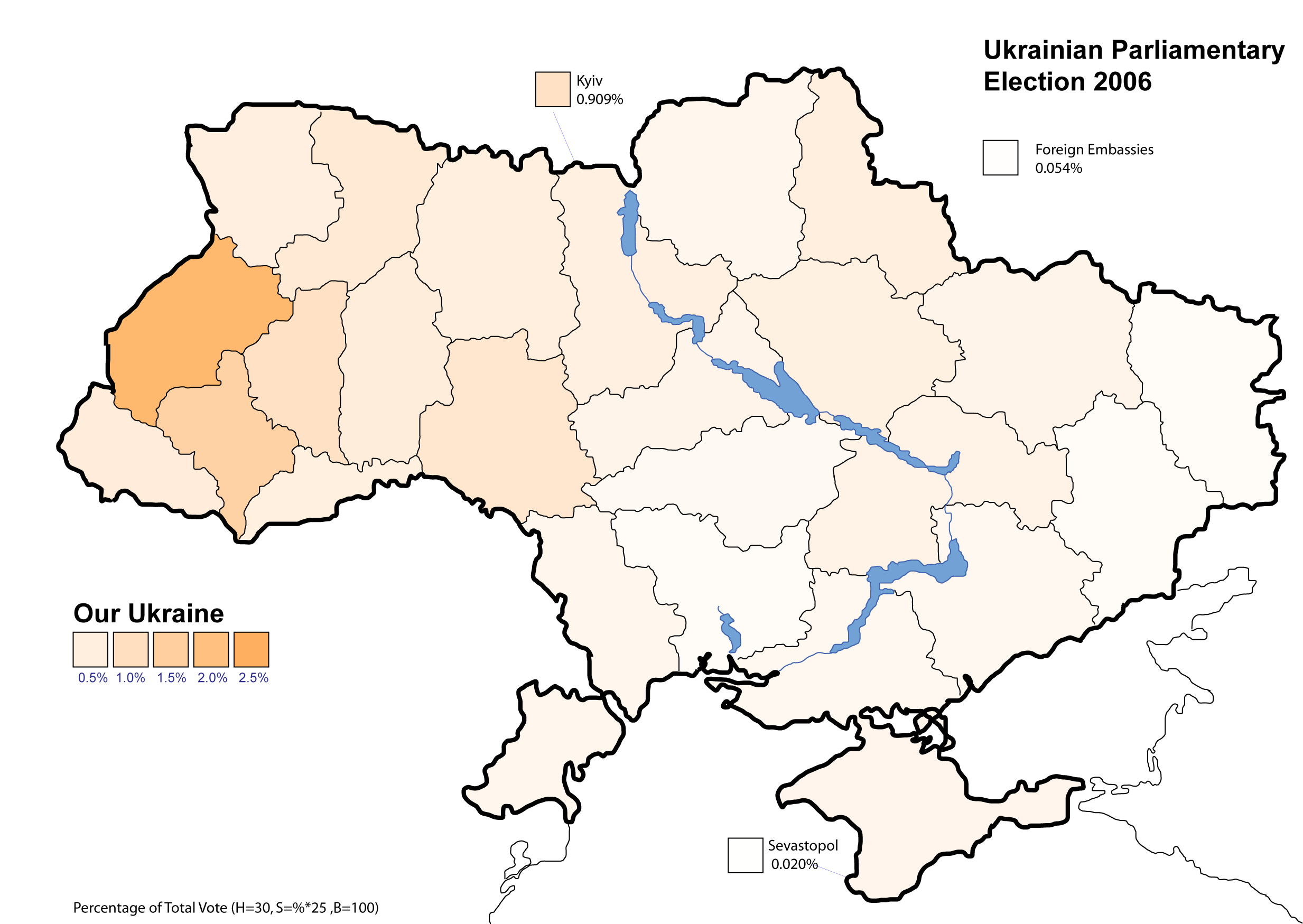 Ukrainian Parliamentary Election 2006 - Our Ukraine (non-verbose) percentage of total national vote (H=30, C=%*25, B=100)